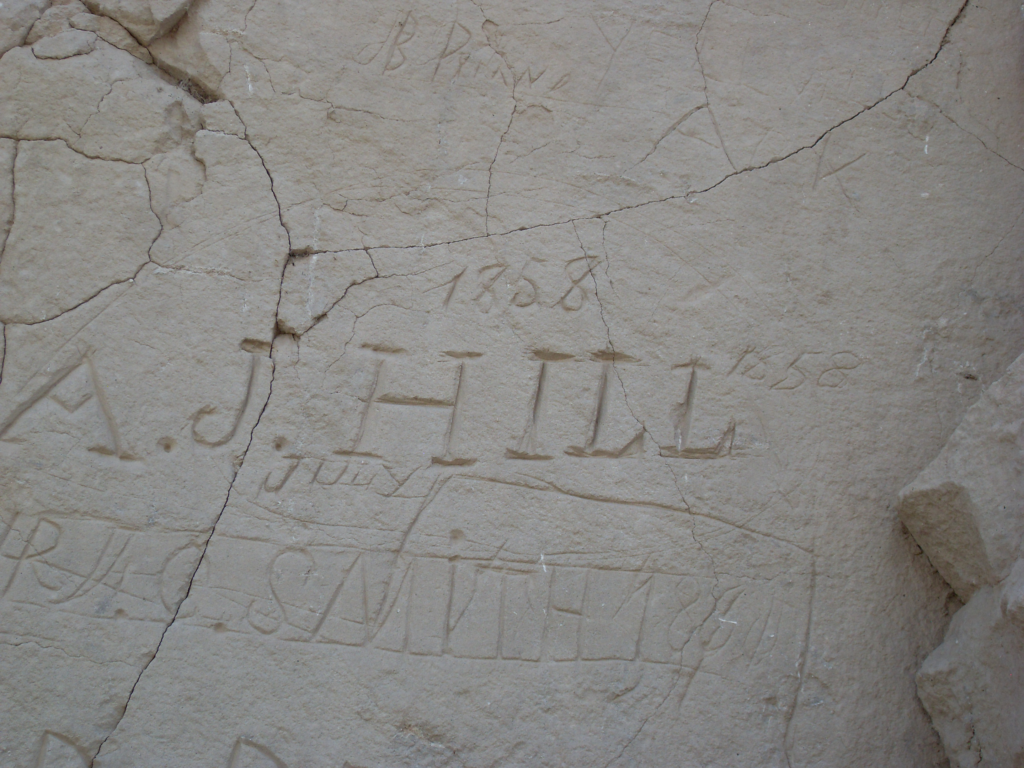 Names from 1858 at Register Cliff "A.J. Hill and J.C. Smith"